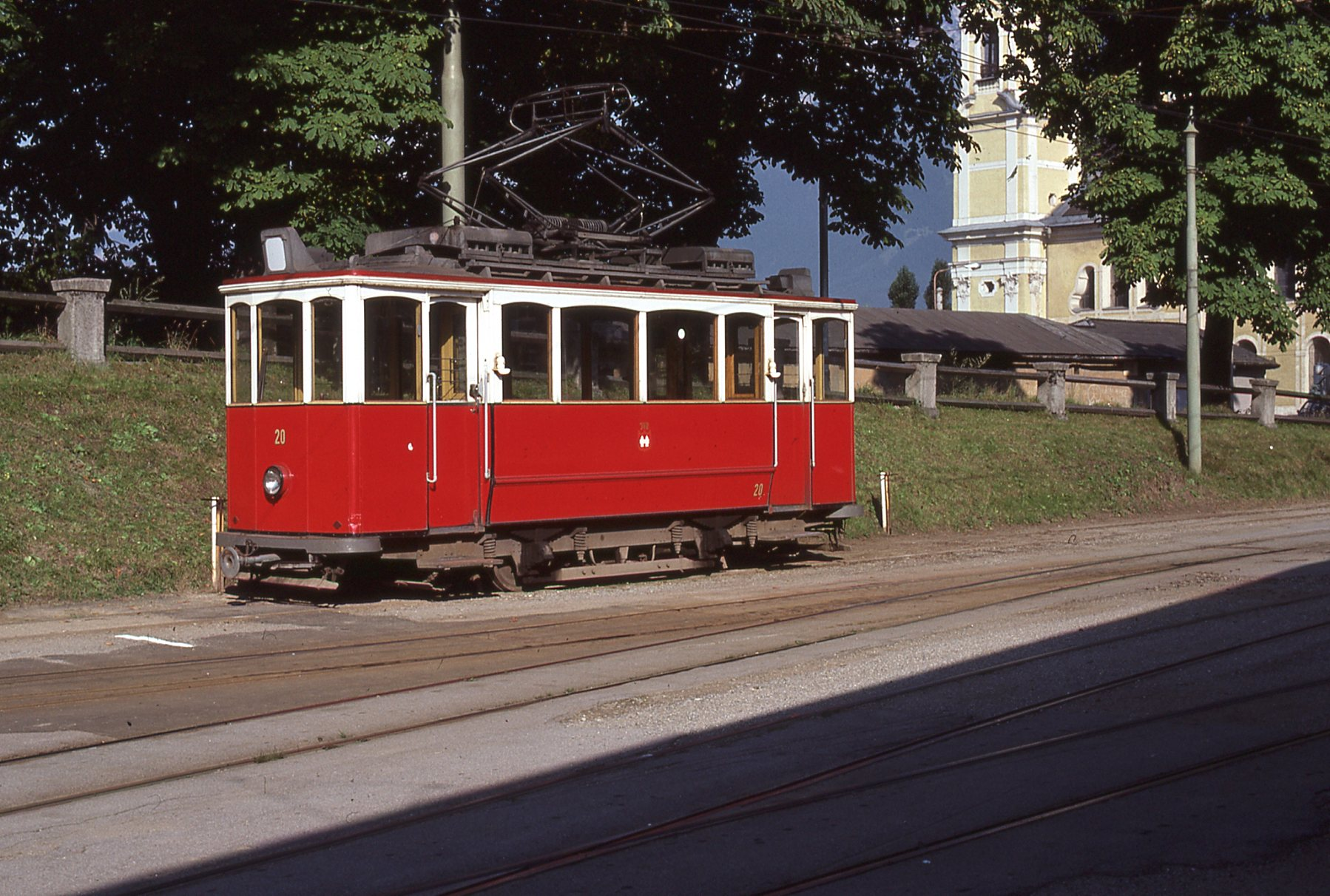 Innsbruck ex Zürich tramcar No. 20 at Bergisel.